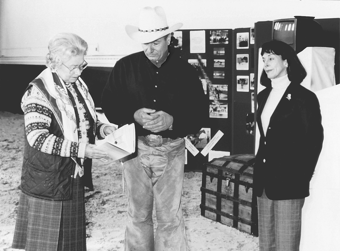 In thanks for her encouragement to write the book, Monty and Pat Roberts give Queen Elisabeth II a copy of "The Man Who Listens to Horses" during Monty Roberts' UK book launch tour in 1996. Photo taken in the mews at Windsor Castle where the Queen was watching a cutting demonstration of Monty Roberts riding his horse Dually. Photographer unknown, but photo presumably taken with Pat Roberts' camera.